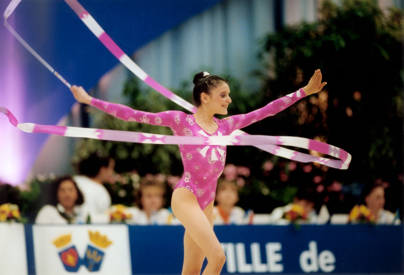 Esther Dominguez (ESP) - Corbeil-Essonnes (France) tournament - 17/05/1998